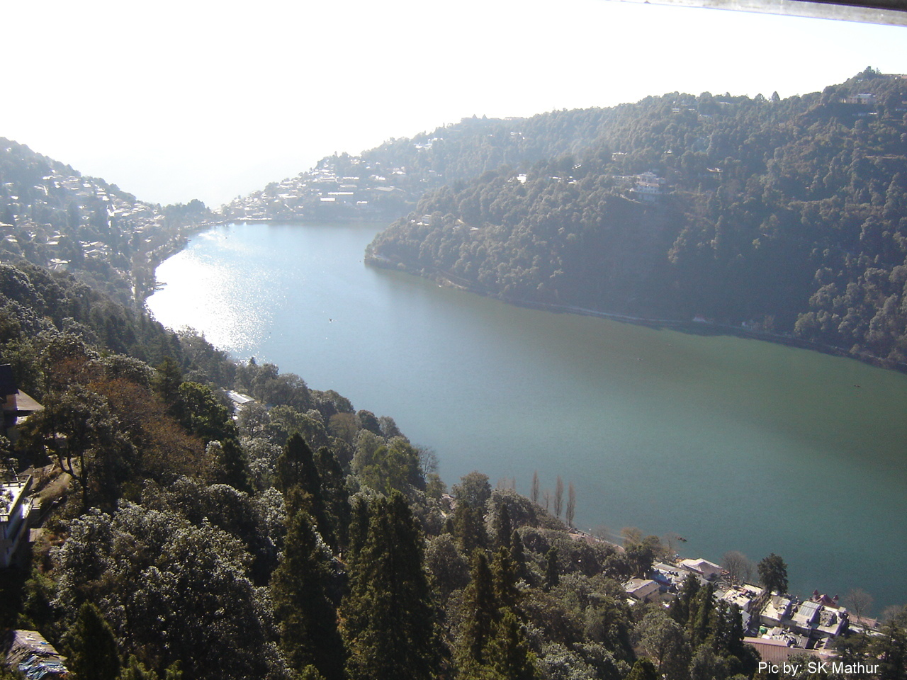 View of the Naini Lake, the main attraction in Nainital, from the Nainital ropeway.